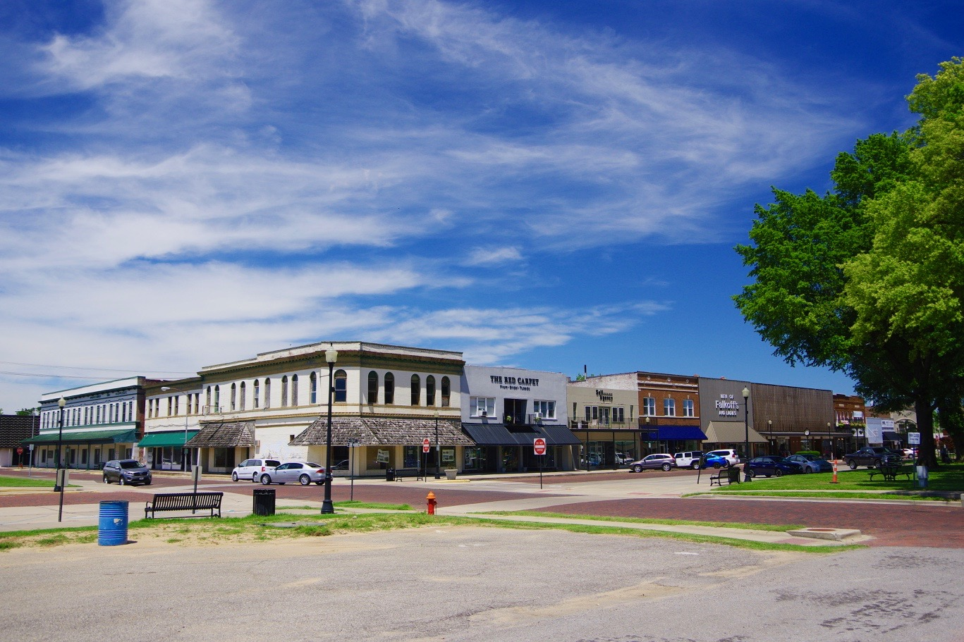 Businesses at the corner of New Madrid Street and Front Street in Sikeston, Missouri, United States